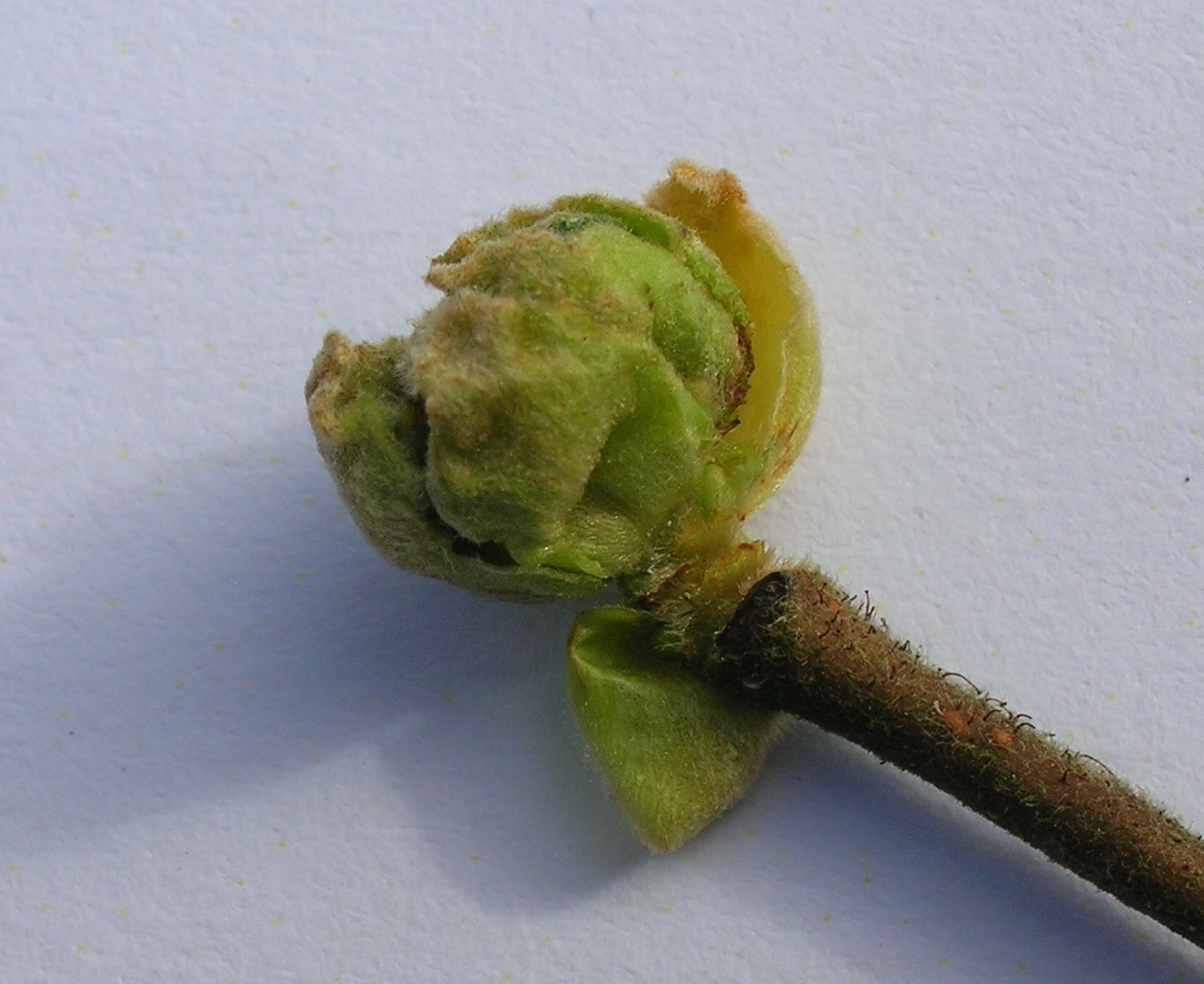 Detail of Hazel Big Bud gall, Mauchline, East Ayrshire, Scotland